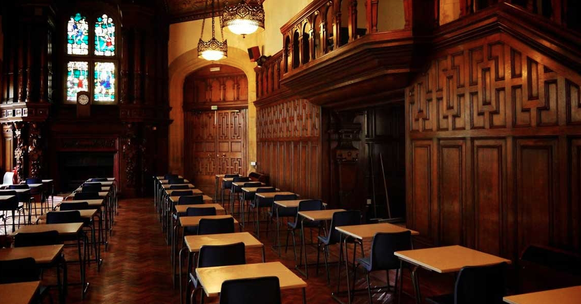 Photo.